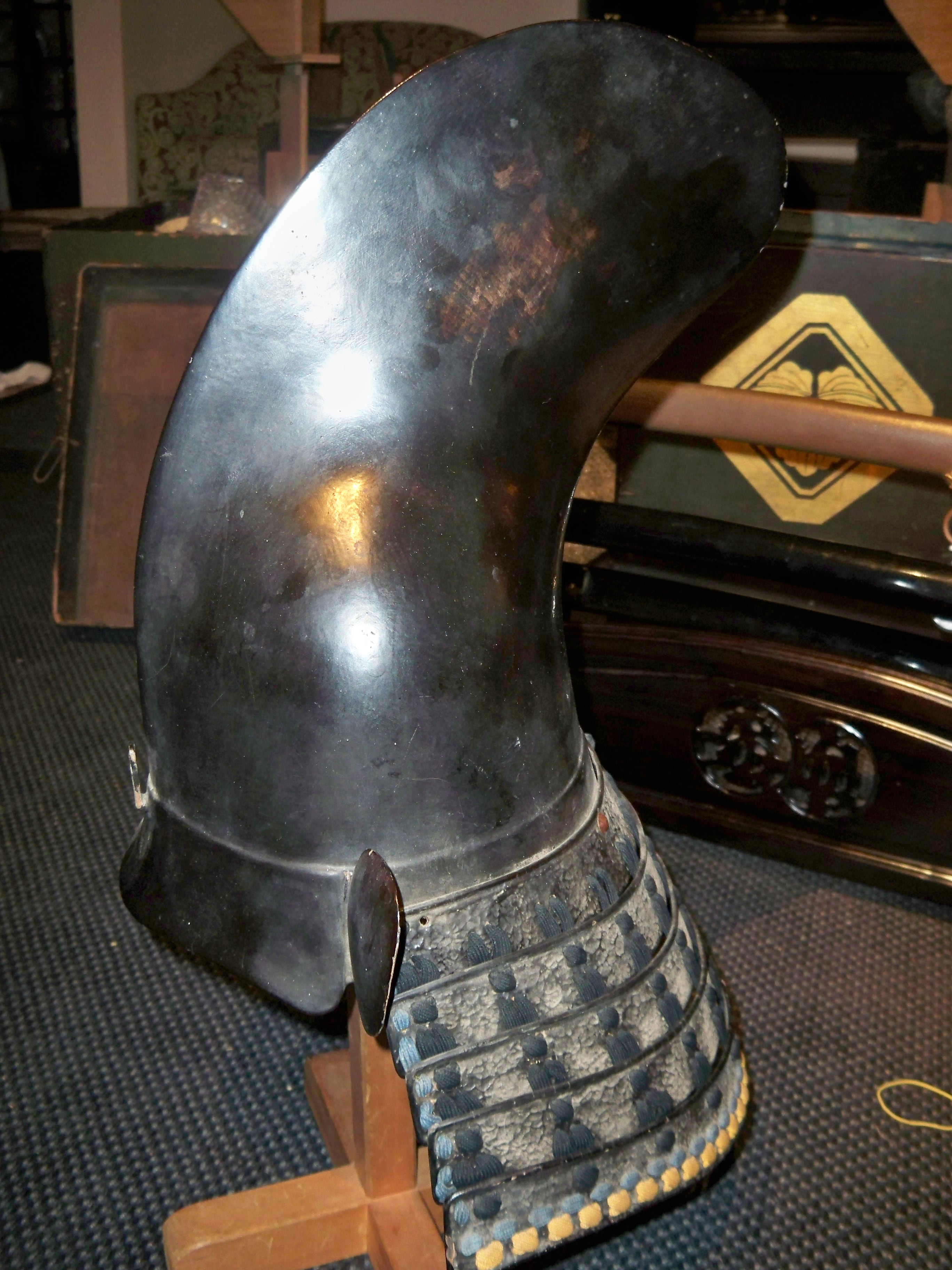 Samurai eboshi style kabuto (helmet).